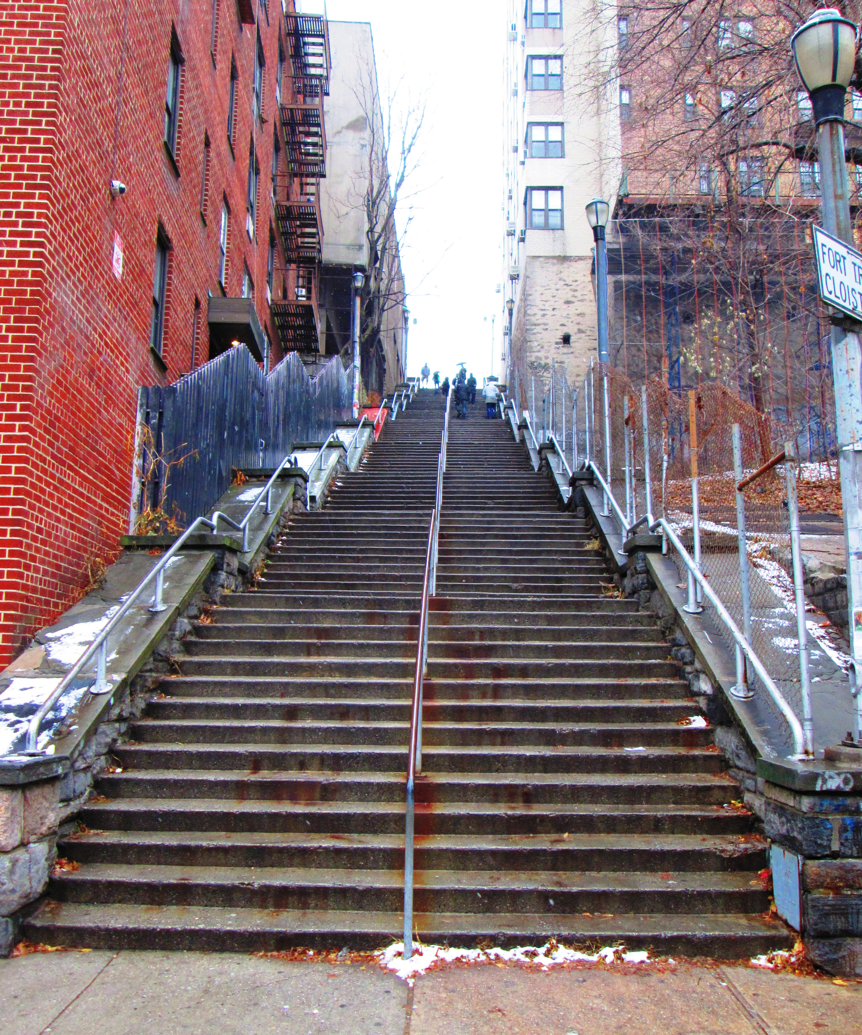 A steep ridge in Upper Manhattan located between Bennett Avenue and Fort Washington Avenue, and between West 182nd Street and Dyckman Street, prevents most cross streets from continuing from the Washington Heights neighborhood into Hudson Heights. At West 187th Street, the two sections are connected by a long set of stairs between Overlook Terrace and Fort Washington Avenue. This image looks west from Overlook Terrace, in Washington Heights, to Fort Washington Avenue, in Hudson Heights.